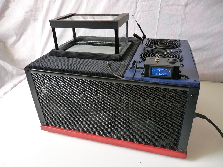 A thermoelectic diffusion cloud chamber available at cloudylabs.fr